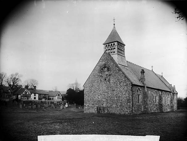 1 negative : glass, dry plate, b&w ; 16.5 x 21.5 cm.